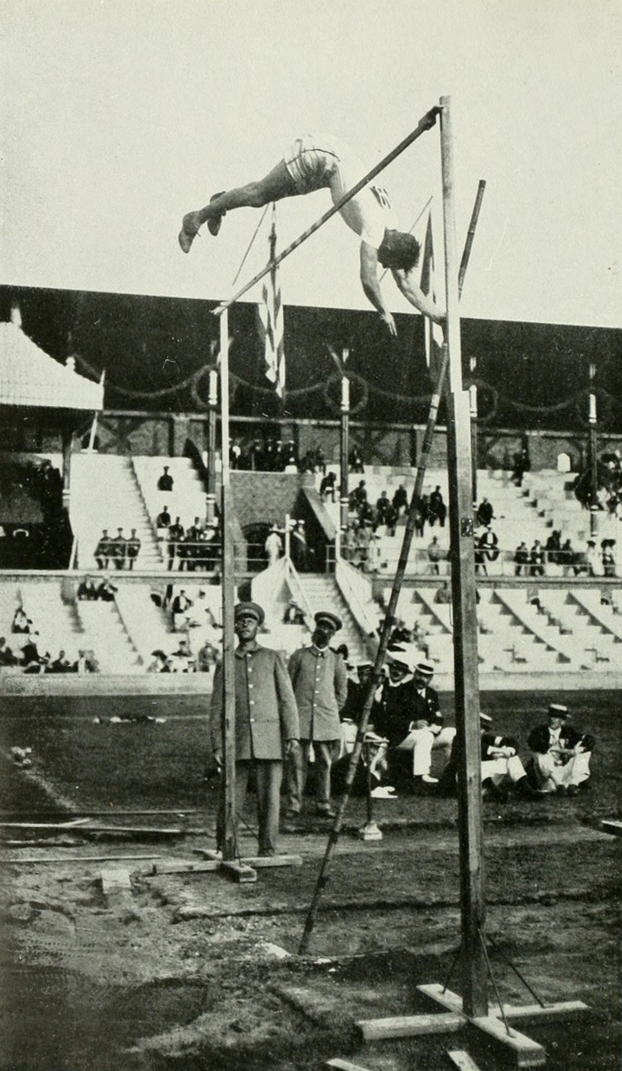 Marc Wright during the pole vault competition at the 1912 Summer Olympics